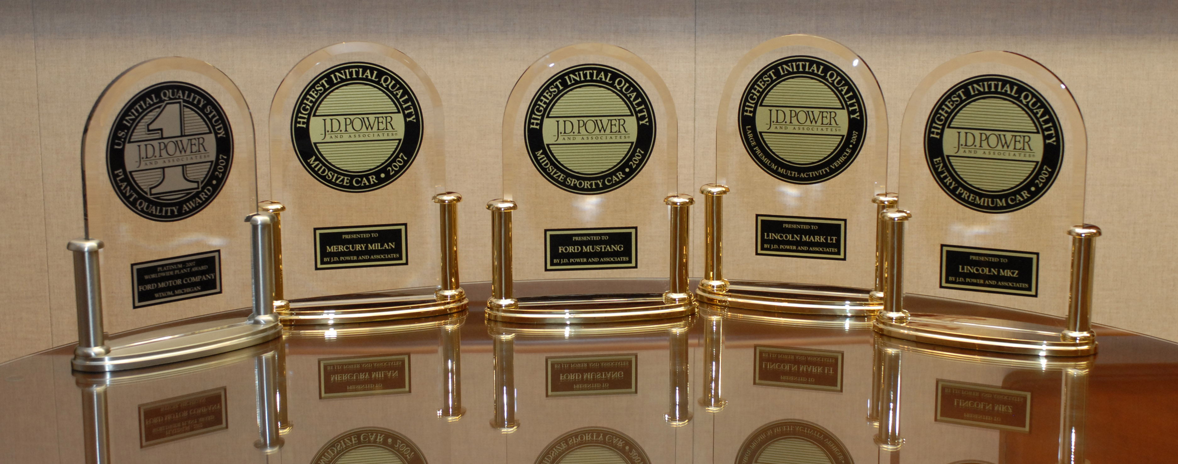 A set of awards presented by J. D. Power and Associates to the Ford Motor Company in 2007 for the excellent results achieved by the Lincoln Mark LT and MKZ, Mercury Milan and Ford Mustang in their "J.D. Power and Associates 2007 Initial Quality Study".